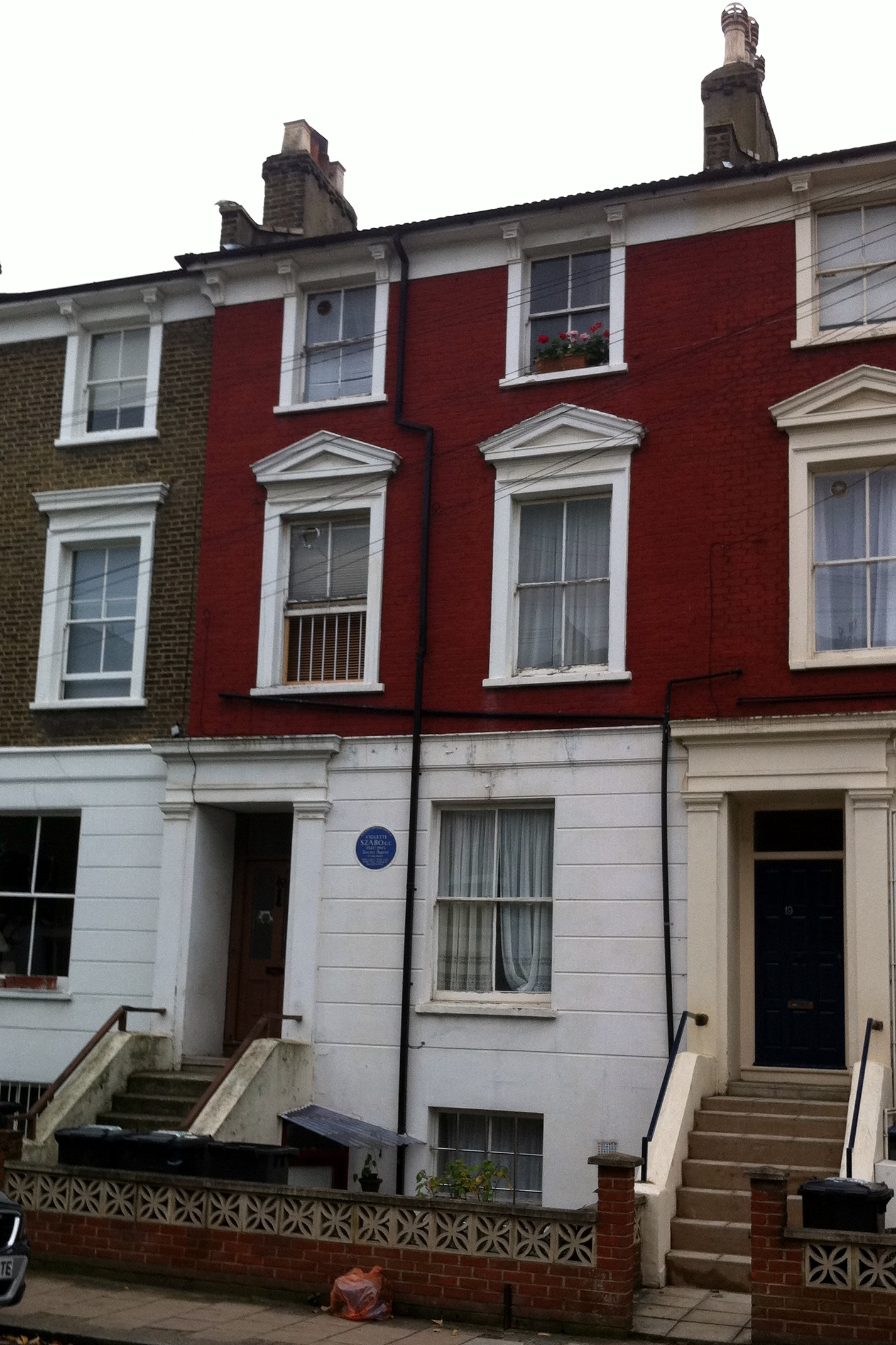 Violette Szabo's former home in Burnley Road, Stockwell, London, UK